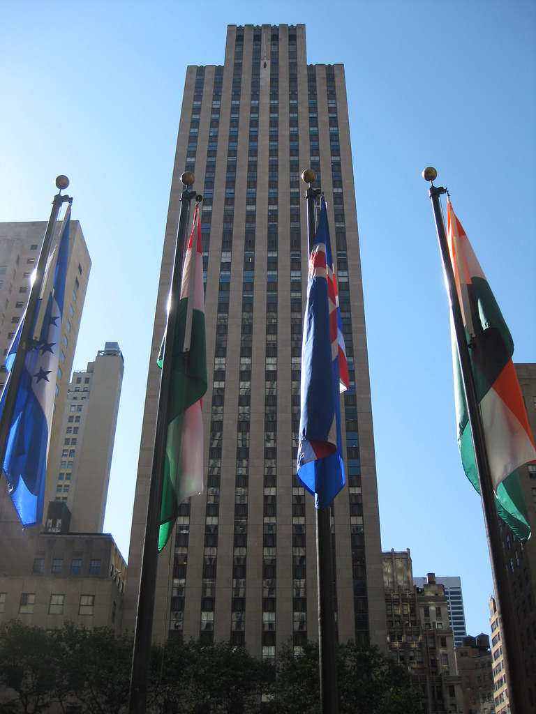 1, Rockefeller Plaza Building